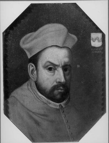 Image of Gerard of Groesbeek (1517-1582), Prince-Bishop of Liège from 1565 till 1580. Groesbeek was also a Cardinal.